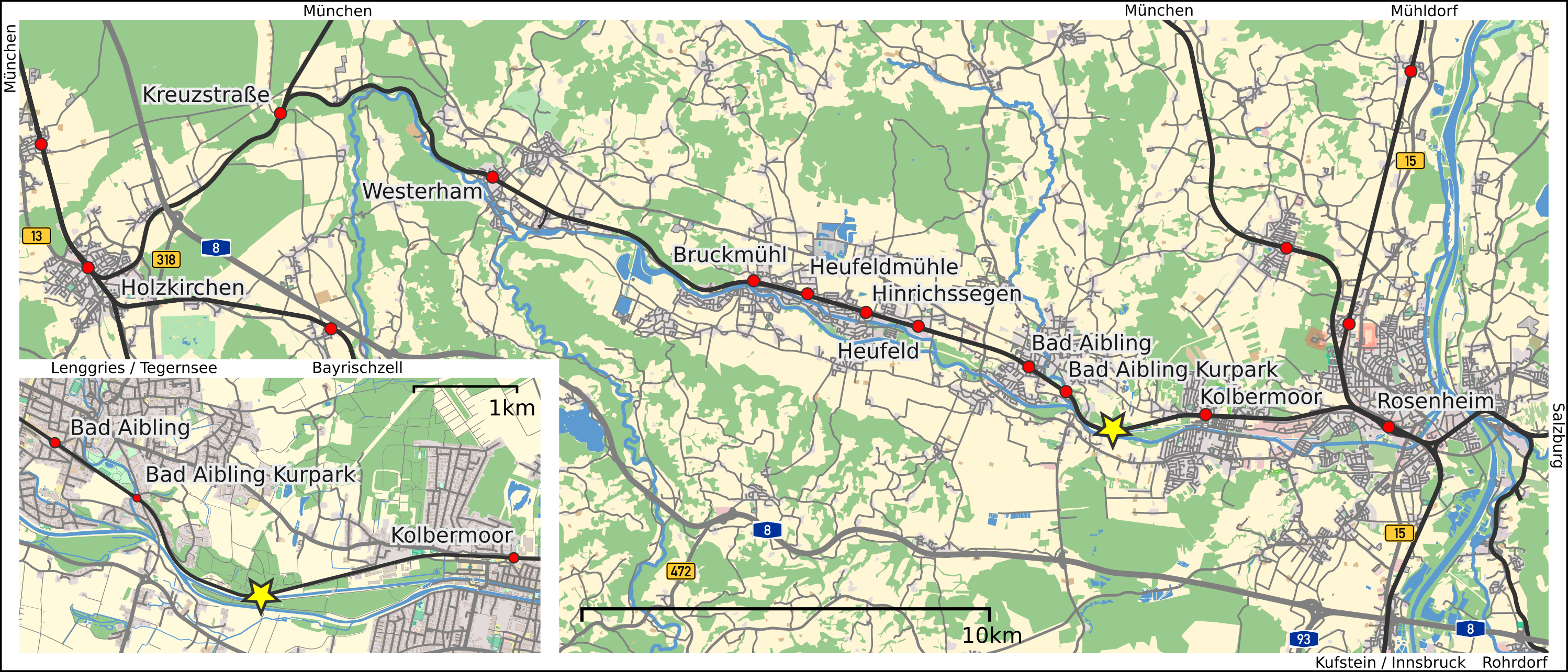 Railway accident in the South of Germany near Bad Aibling, February 2016.